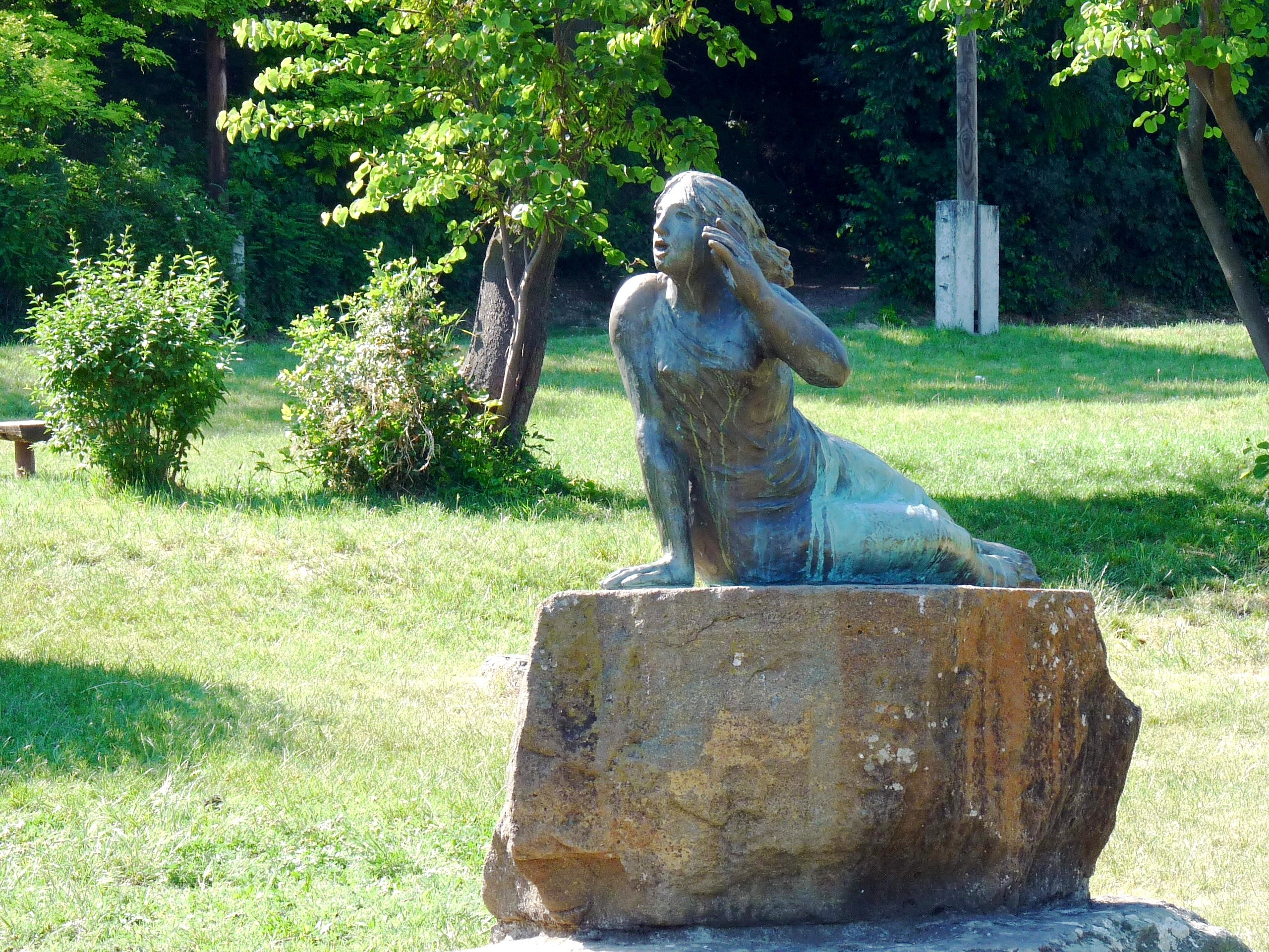 Statue of ’Tihany Echo’ sculpted by Miklós Borsos. (bronze, 1985., Tihany, Humgary)